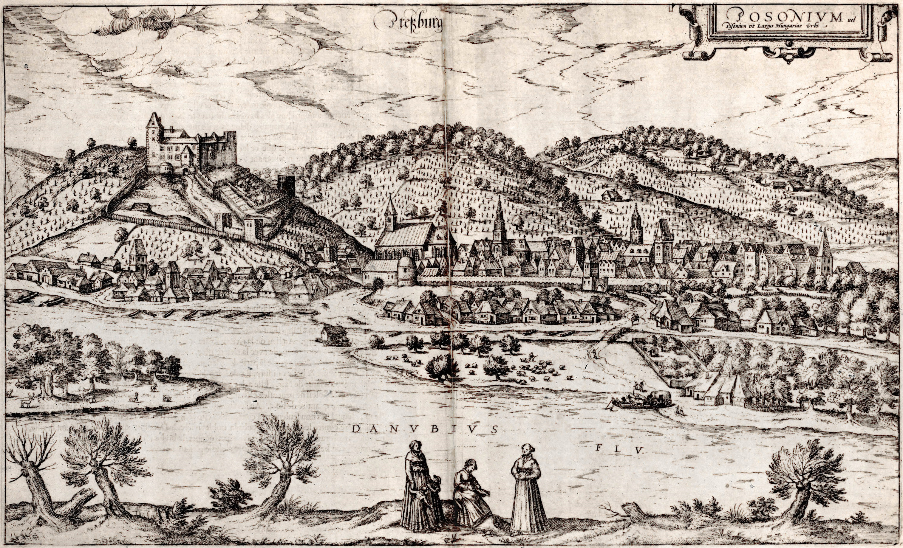 Posonium (Bratislava) by Braun and Hogenberg, Civitates Orbis Terrarum IV44.First Latin edition of volume IV was published in 1588, *Text on top right:Posonium vel Pisonium vt Lazius Hungariae urbs